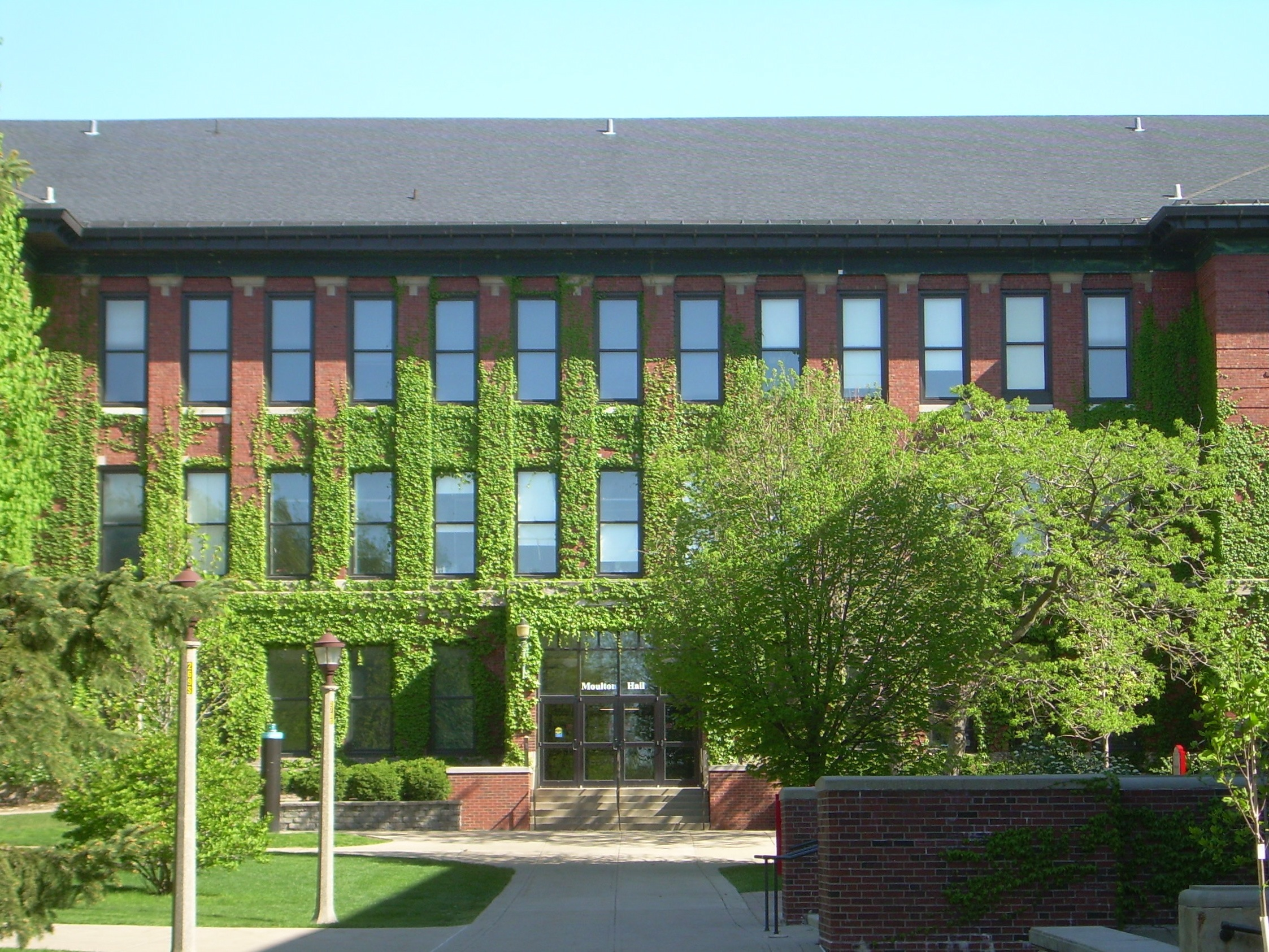 Moulton Hall, formerly the Metcalf School and University High School. Illinois State University, Normal, Illinois